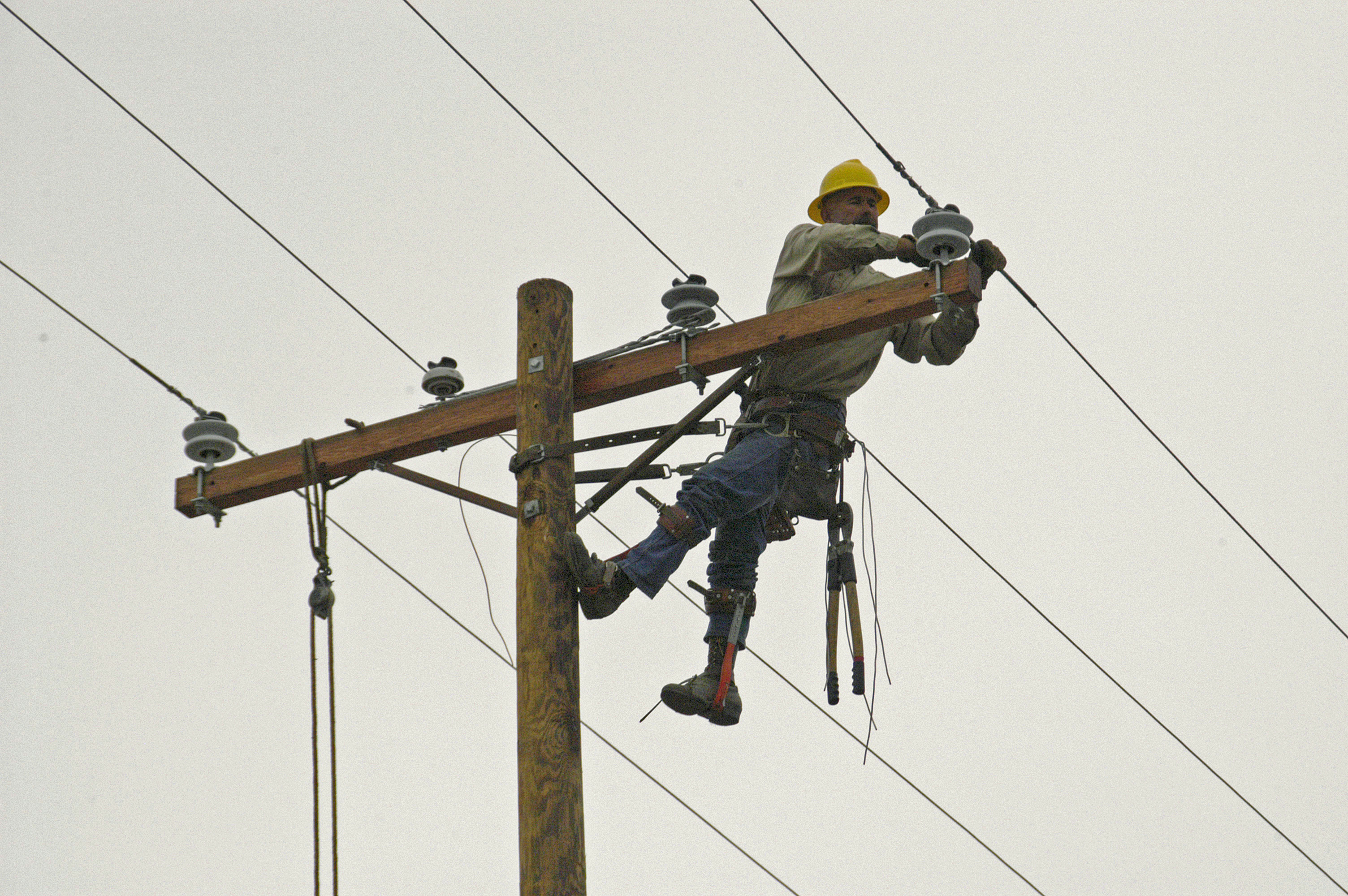 Cameron, LA, 11-10-05 -- Lineman Marion Chappell from Utah repairs a damaged power line from Hurricane Rita. FEMA is helping Local governments get Roads, Bridges, and Utilities back in operation so residents can move back. MARVIN NAUMAN/FEMA photo